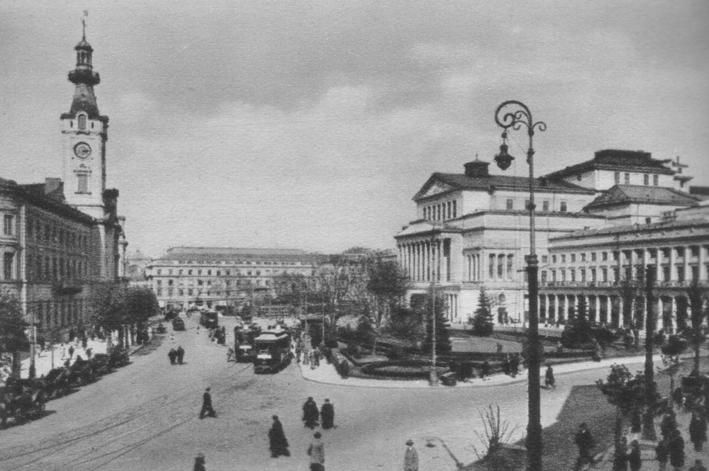 The Theater Place in Warsaw, Poland